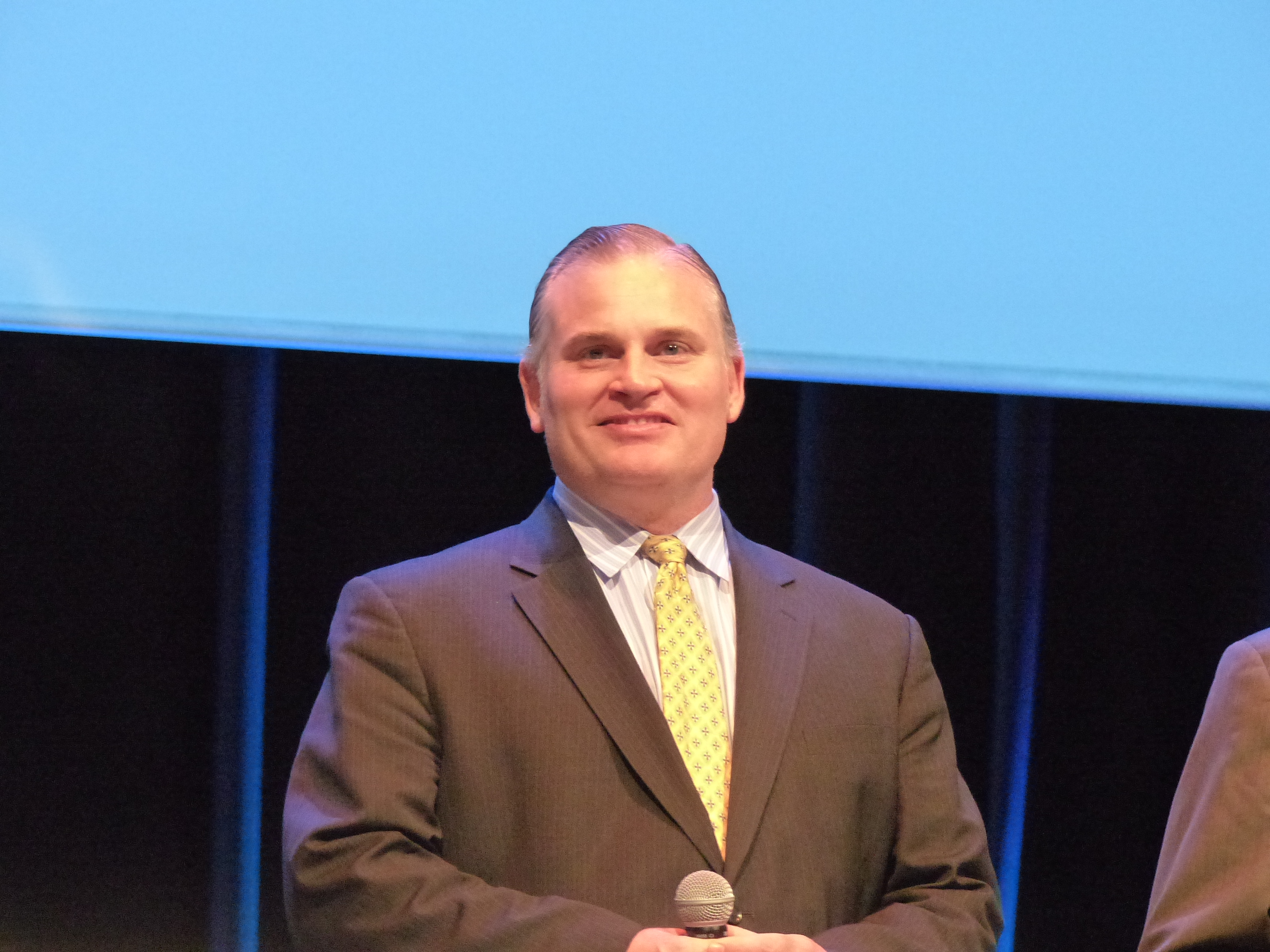 Brian Brown, President of World Congress of Families (WCF). Taken on the 27th of May, 2017. World Congress of Families XI. Budapest Congress Center. Hungary, Central Europe.